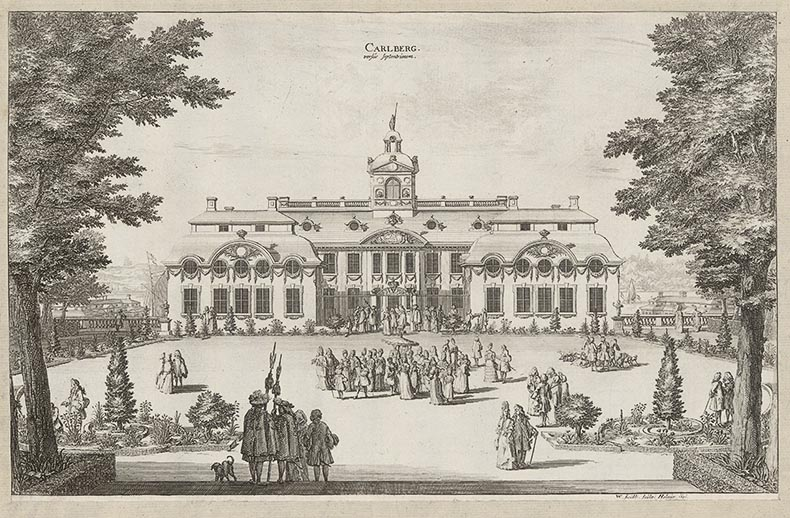 Northern façade of Karlberg Palace in the 1690s as presented in Suecia antiqua et hodierna, 1690-1710.